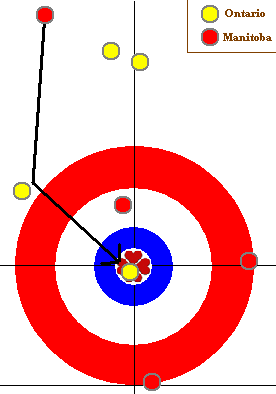 The Shot - last stone in 2005 Scott Tournament of Hearts (Jennifer Jones)